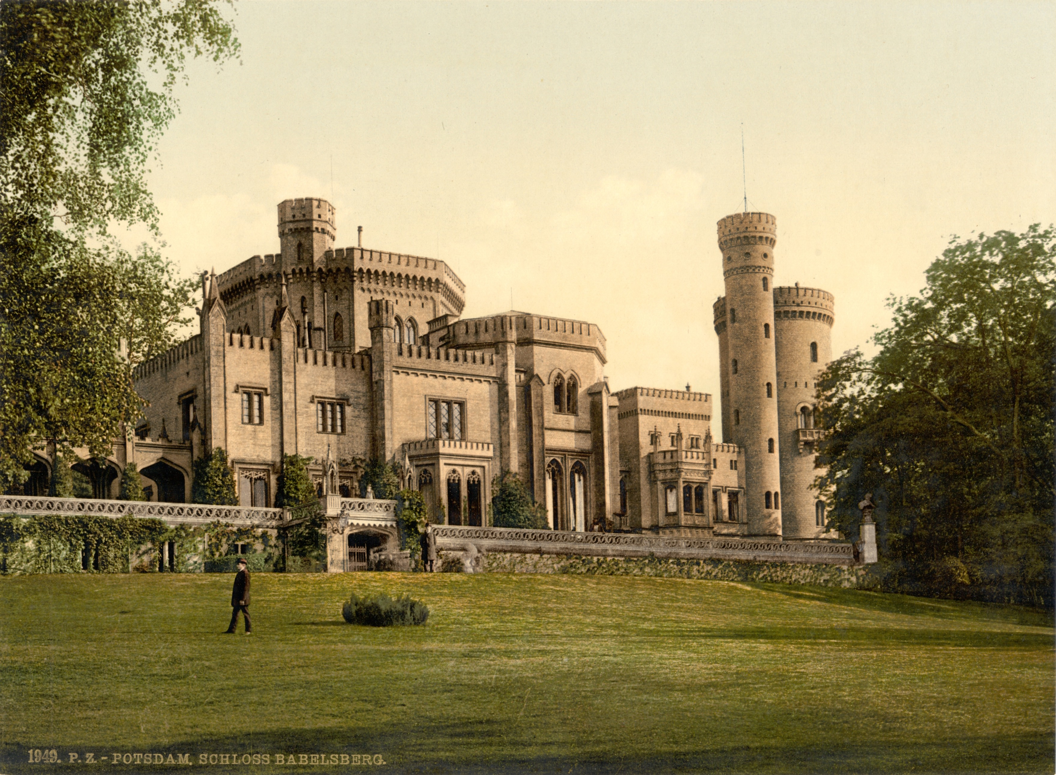 Babelsberg Castle (Potsdam, Germany)